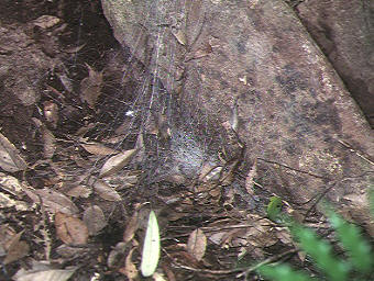 nest of Macrothele gigas from Okinawa.